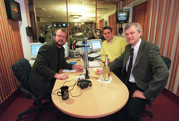 Opening of NRK Radio channel Alltid Nyheter. From left: Radio director Tor Fuglevik, journalist Tom Nilssen and project manager Frode Rekve. (Photo: Ken Opprann/Aftenposten/Scanpix)